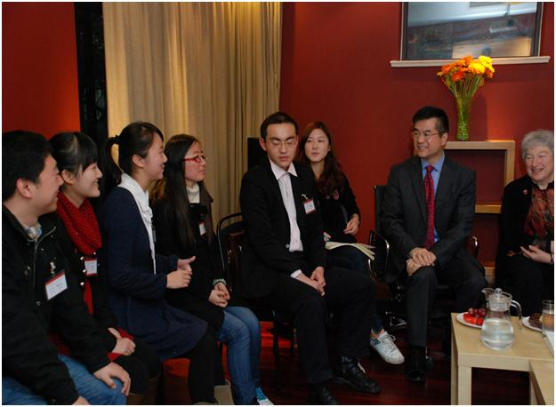 AmbassadorUSST120711